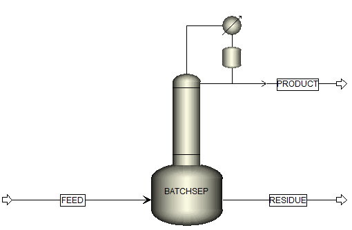 batch distillation unit use for separation of components from the liquid